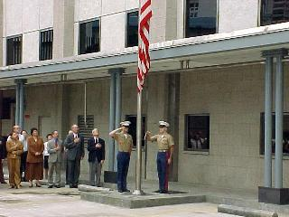 The US flag being lowered in Hong Kong in respect for the victims of NATO's mistaken bombing of the Chinese (PRC) embassy in Belgrade during the April-June 1999 NATO bombing of Yugoslavia. *Text from the State Department: U.S. FLAG LOWERED IN RESPECT As a sign of respect and condolence for the Chinese nation, the flag of the Consulate General was lowered to half-staff for 24 hours when the airplane carrying the remains of those killed in the accidental bombing of the Chinese Embassy in Belgrade arrived in Beijing on May 12. [1999] (By order of the President and Secretary of State, similar measures were undertaken at the Embassy in Beijing and the Consulates General in Chengdu, Guangzhou, Shanghai and Shenyang.)